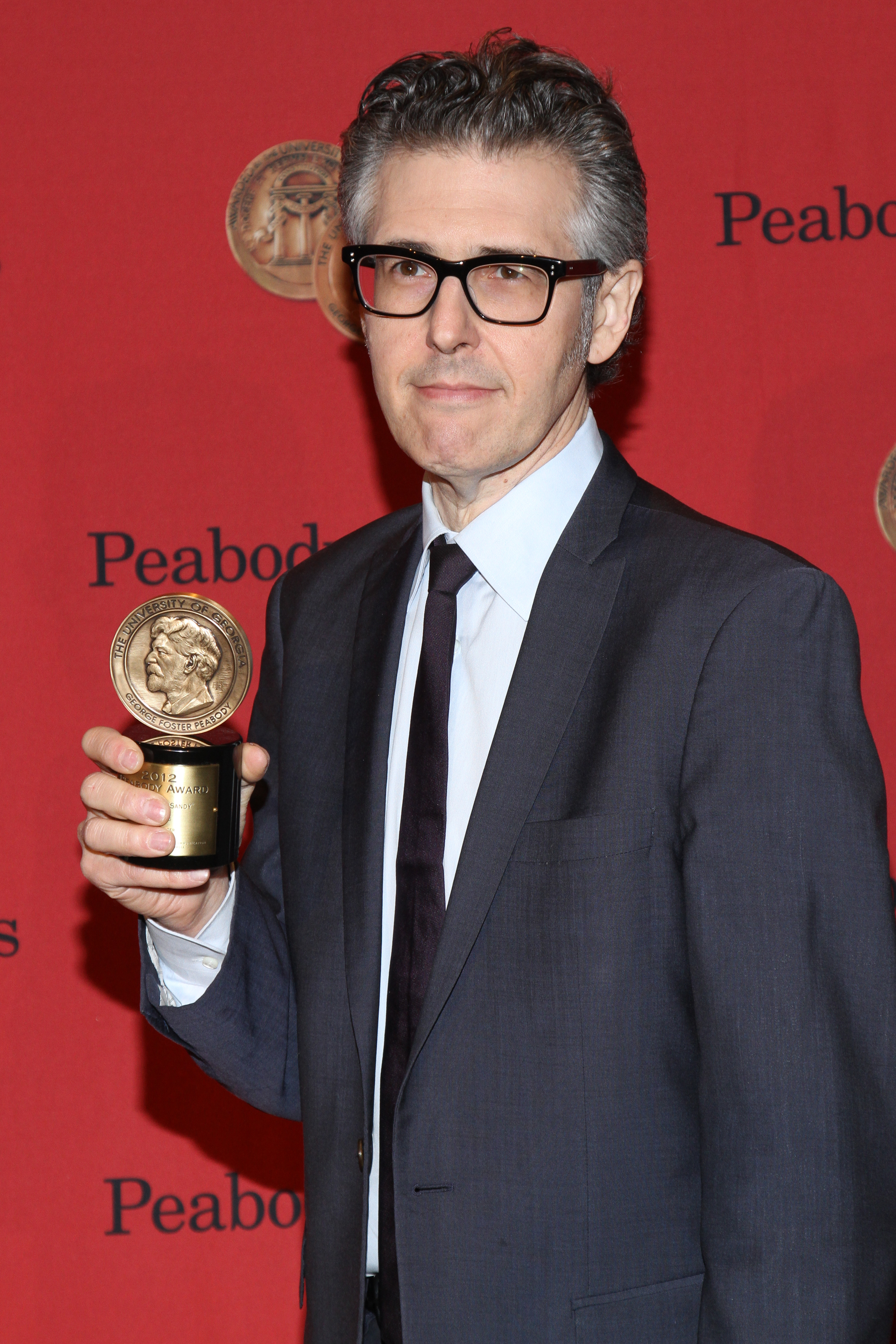 Ira Glass at the 73rd Annual Peabody Awards in 2013